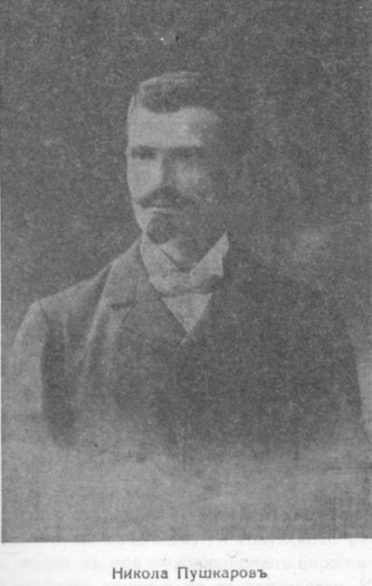 portrait of Nikola Pushkarov